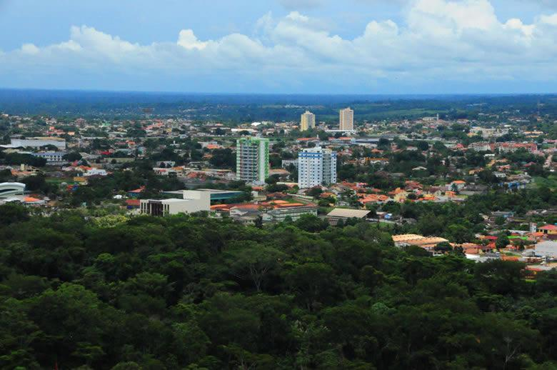 Partial view of Rio Branco, Acre, Brazil.